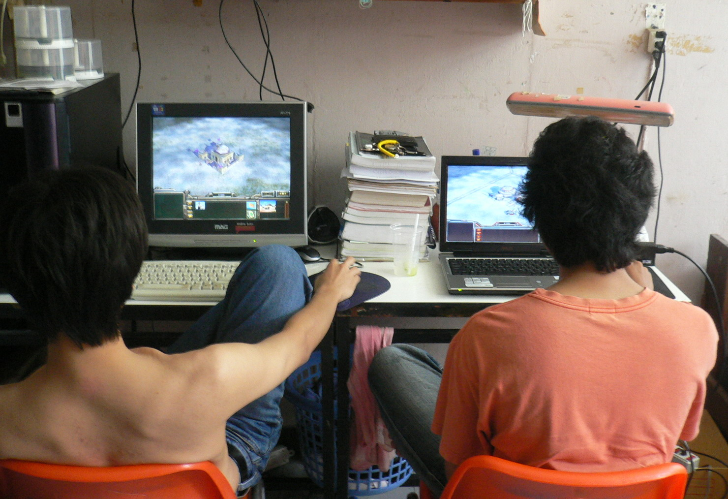 Two men are using their computers (playing computer game).